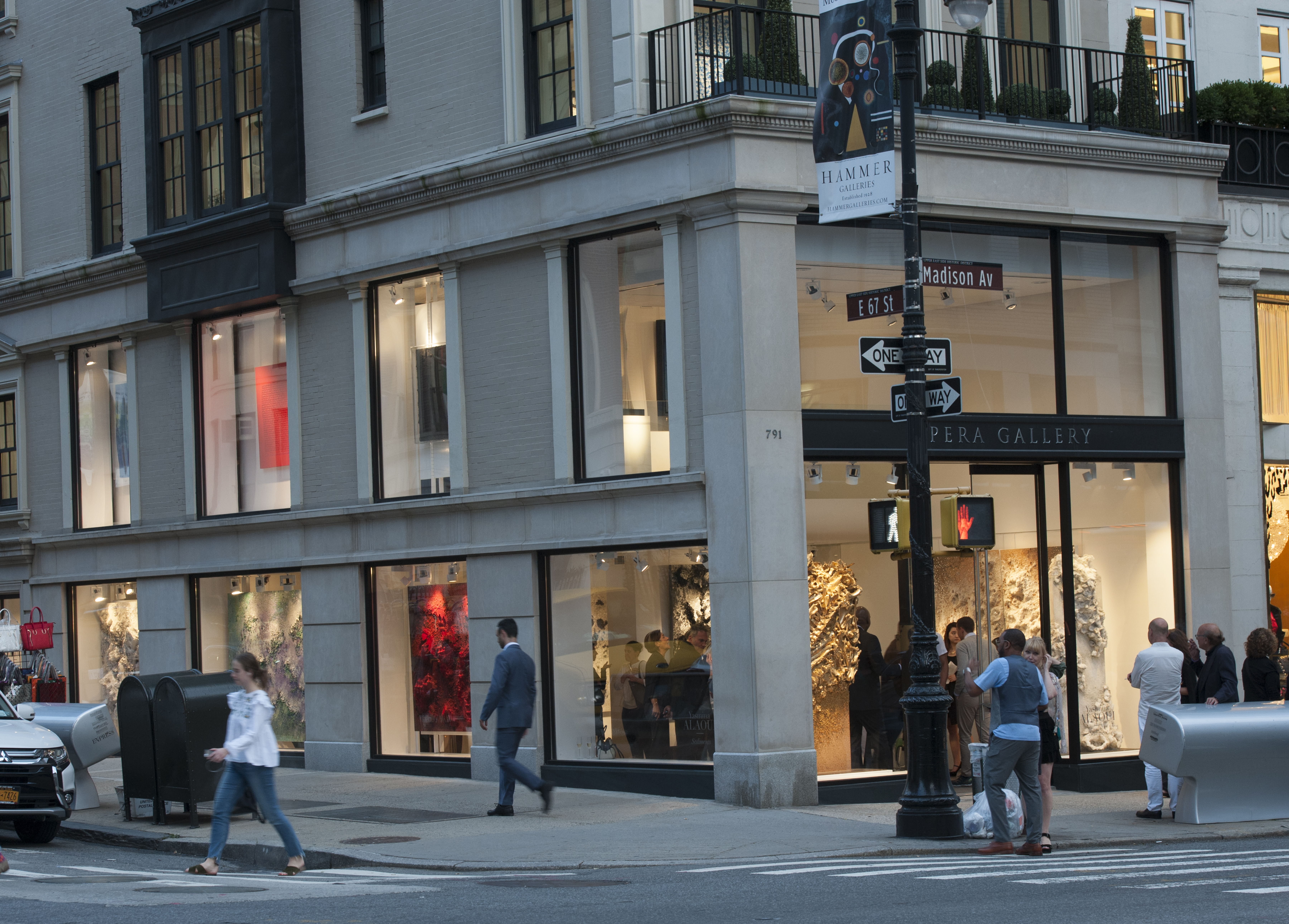 Front View of Opera Gallery New York located on 791 Madison Avenue